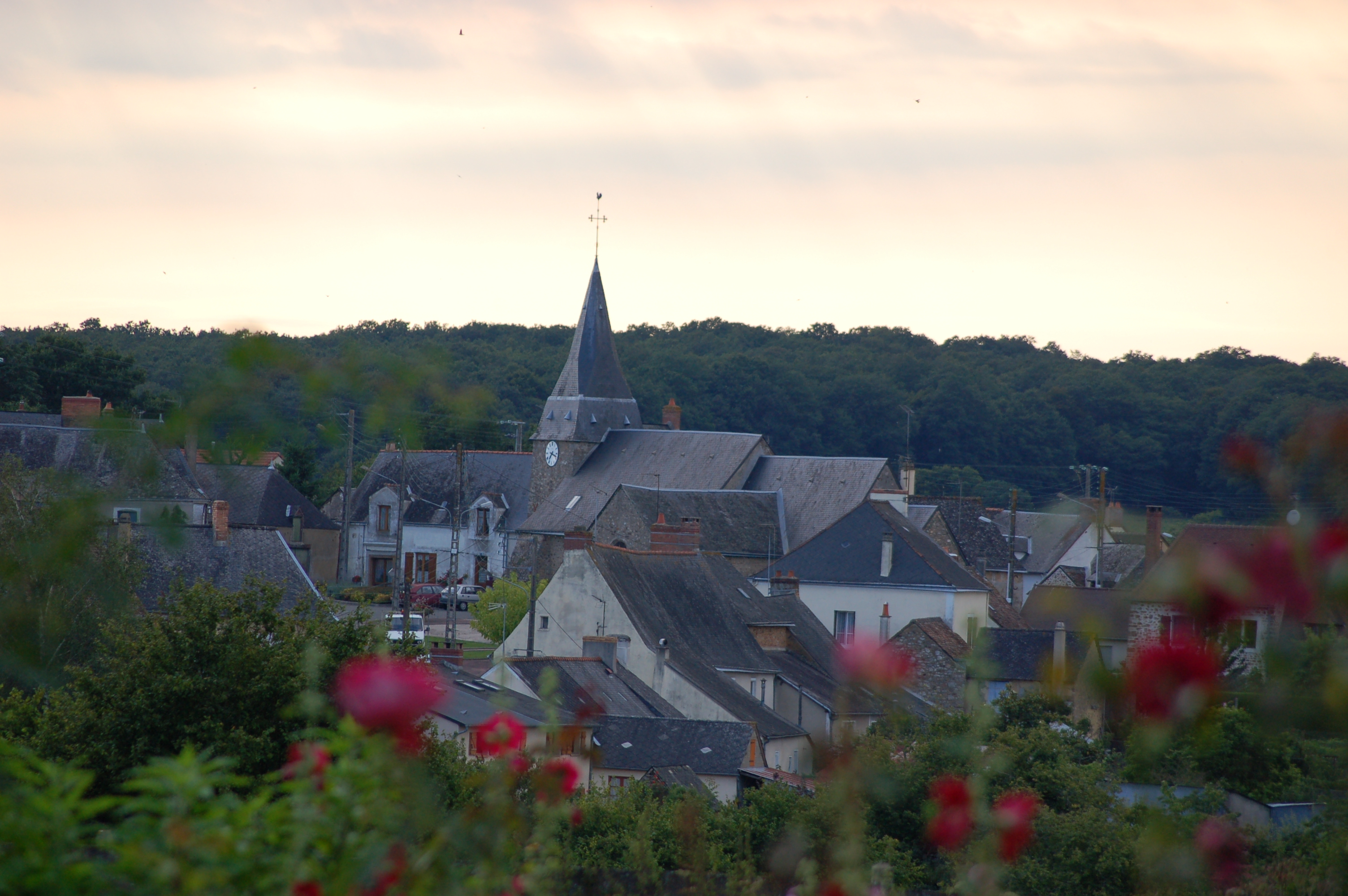 Building